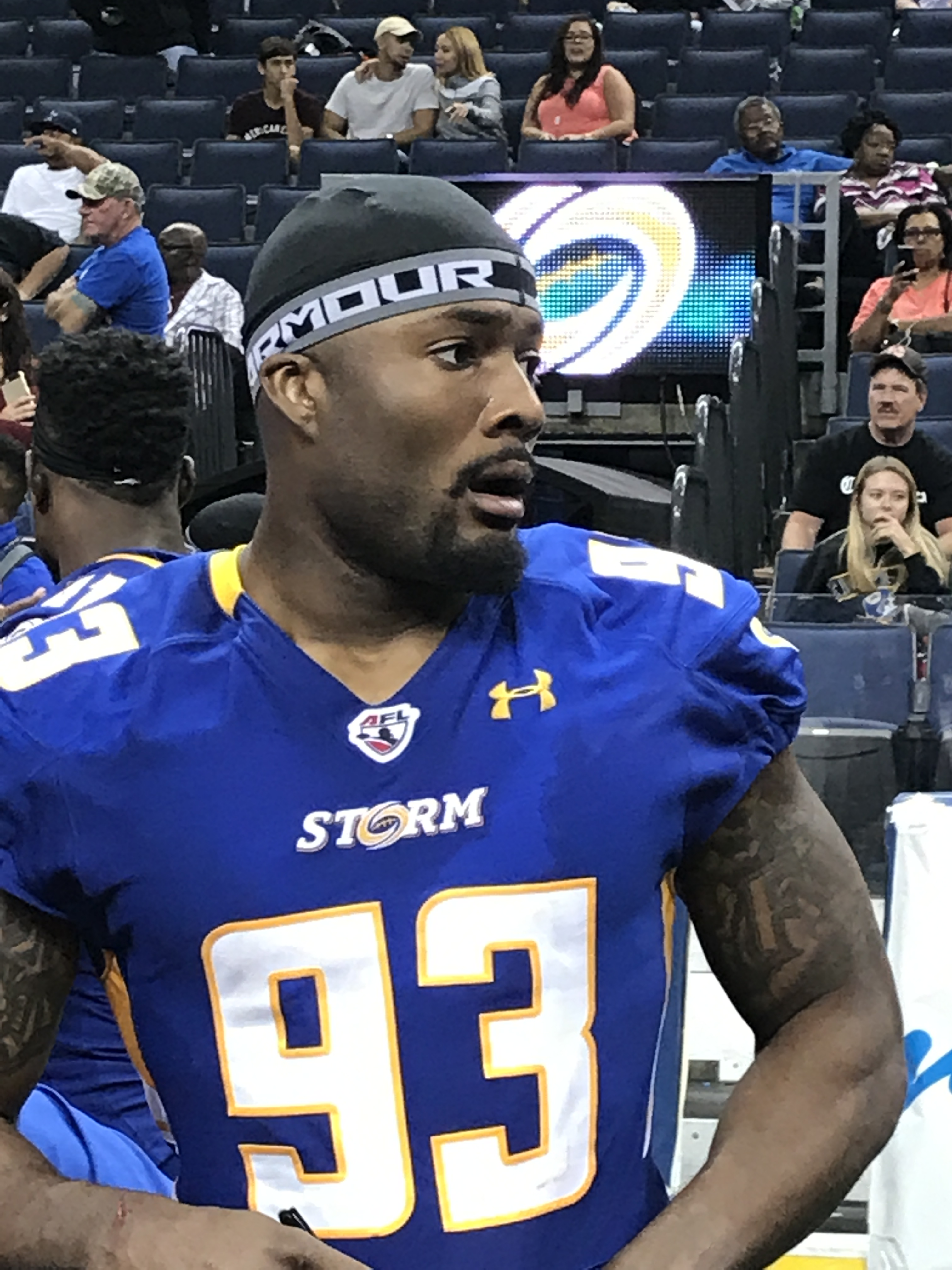 Kendall Montomery